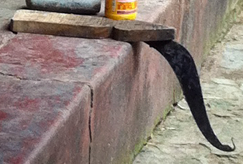 Panikhi (Odia: ପନିଖି) is a curved knife with a wooden base that is used for chopping vegetables. ଓଡ଼ିଆ: ପନିଖିରେ ଏକ କାଠ ଭୂମି ଥାଇ ଧାରୁଆ ଓ ବଙ୍କା ଛୁରି ଥାଏ । ଏହା ପରିବା କାଟିବା ପାଇଁ ବ୍ୟବହୃତ ହୁଏ ।